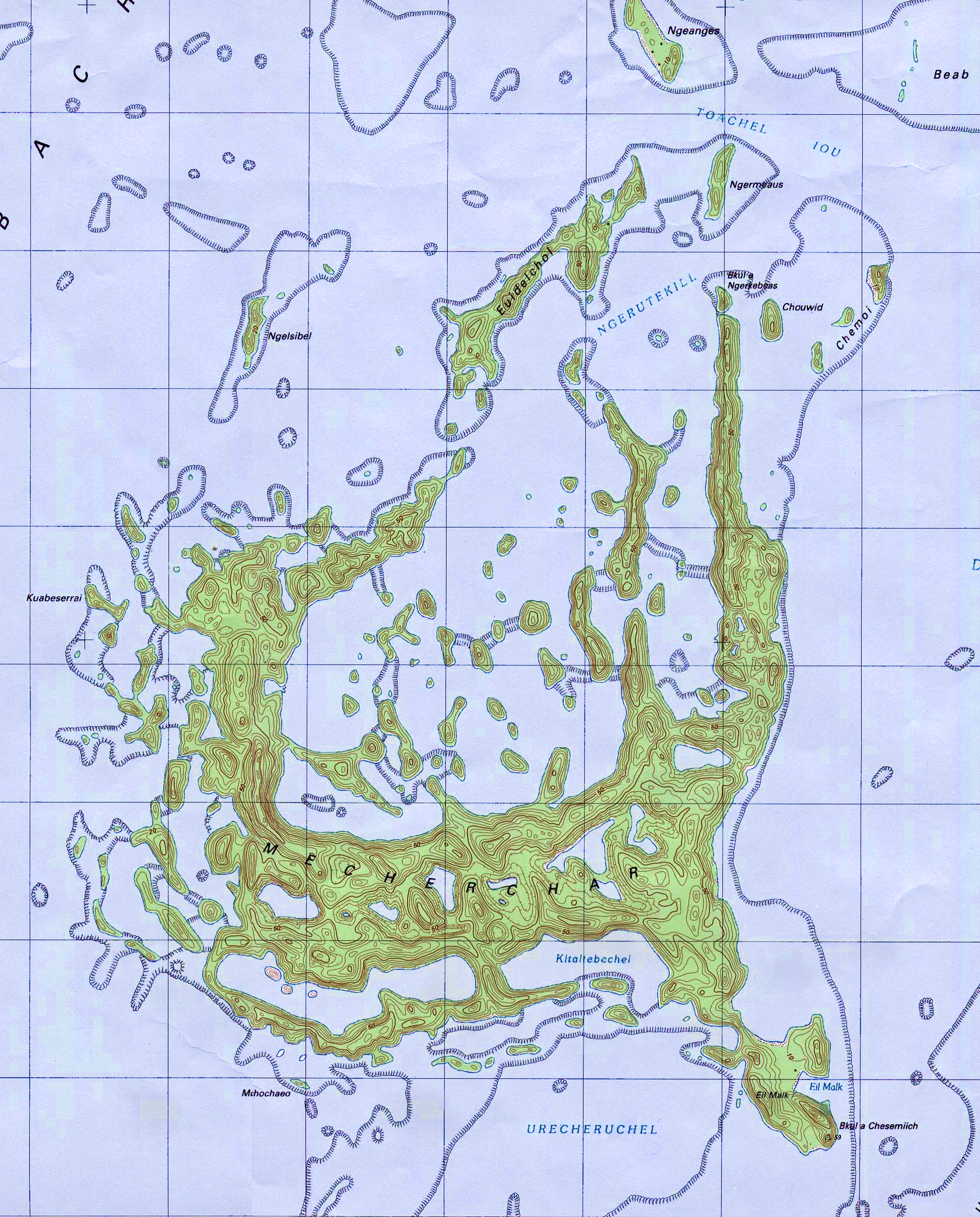 map of Eil Malk or Mecherchar Island, Rock Islands, Palau, West Pacific Ocean, (topographic) 1:25,000